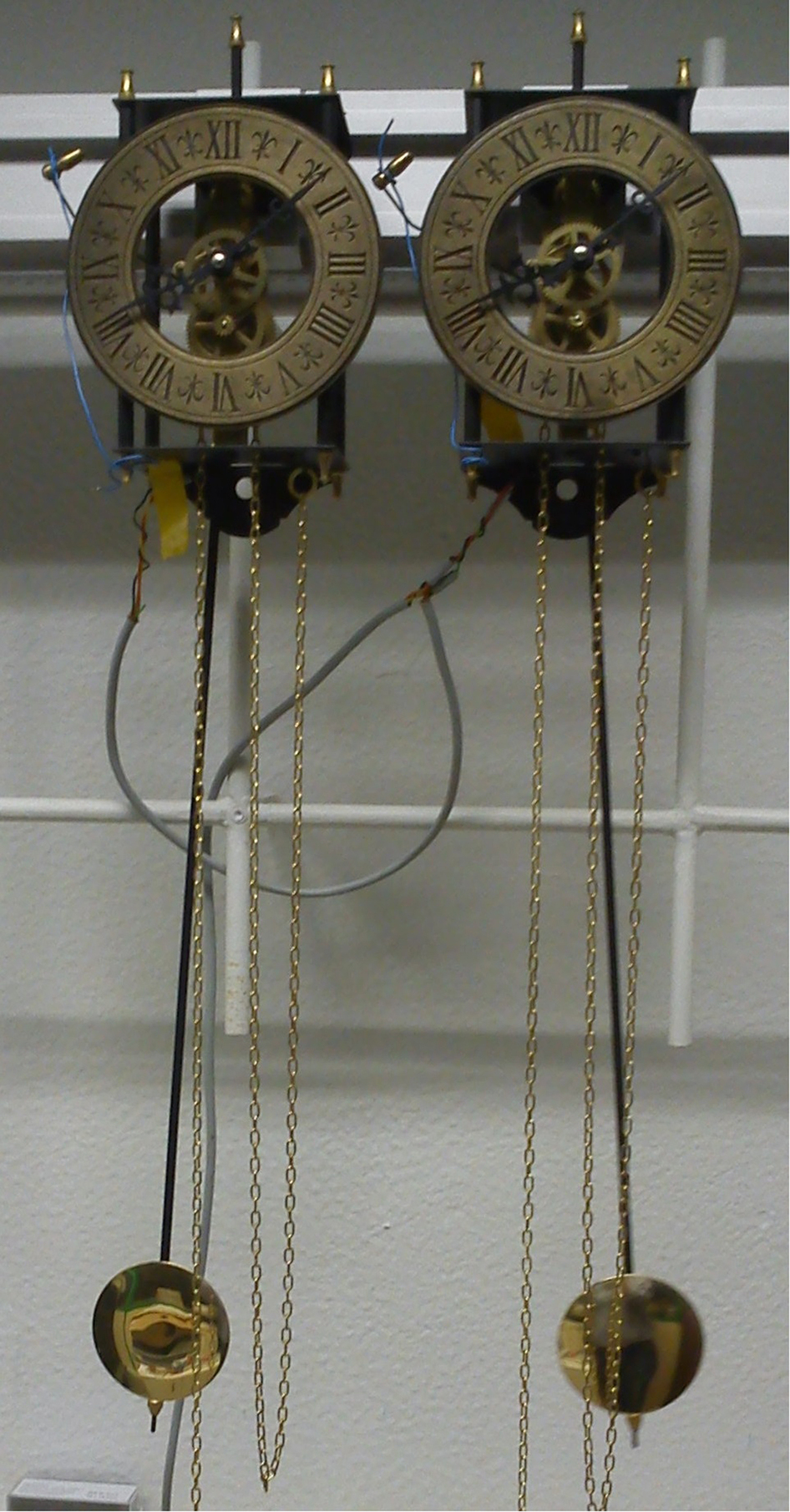 Experimental Setup for Huygens synchronization of two clocks. The clocks can be seen hanging from the rail. The weights are outside of the picture. The cables in the background connect the optical sensors.